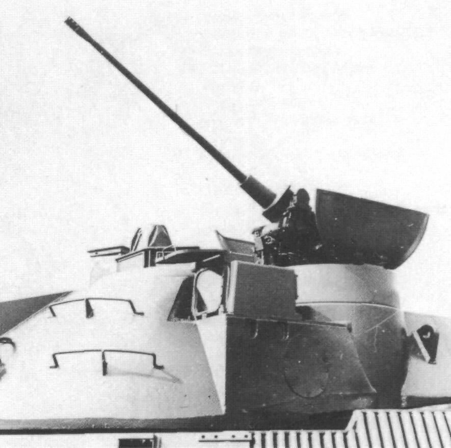 MBT-70 20mm cannon exterior view.